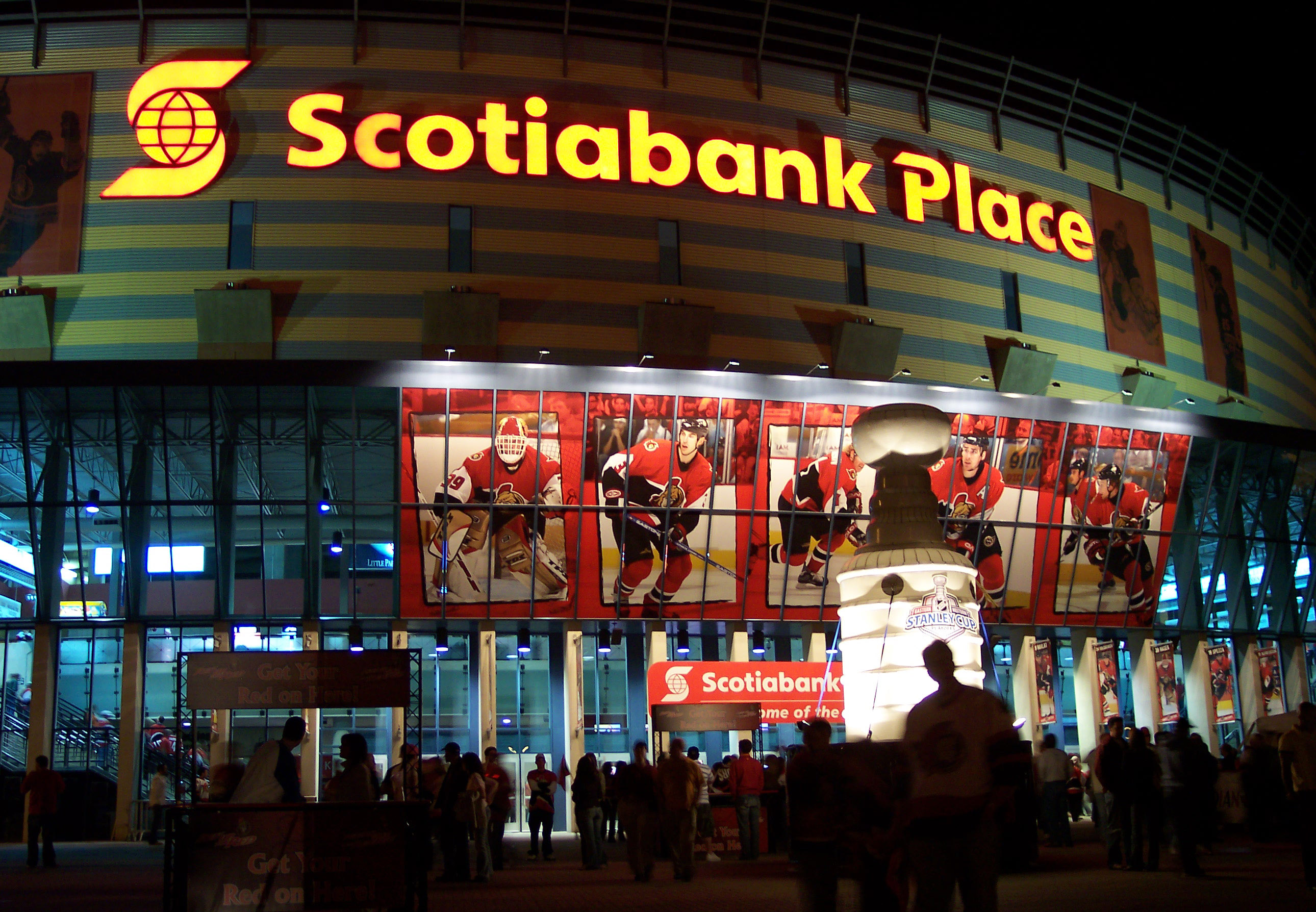 Scotiabank Place, home of the Ottawa Senators.